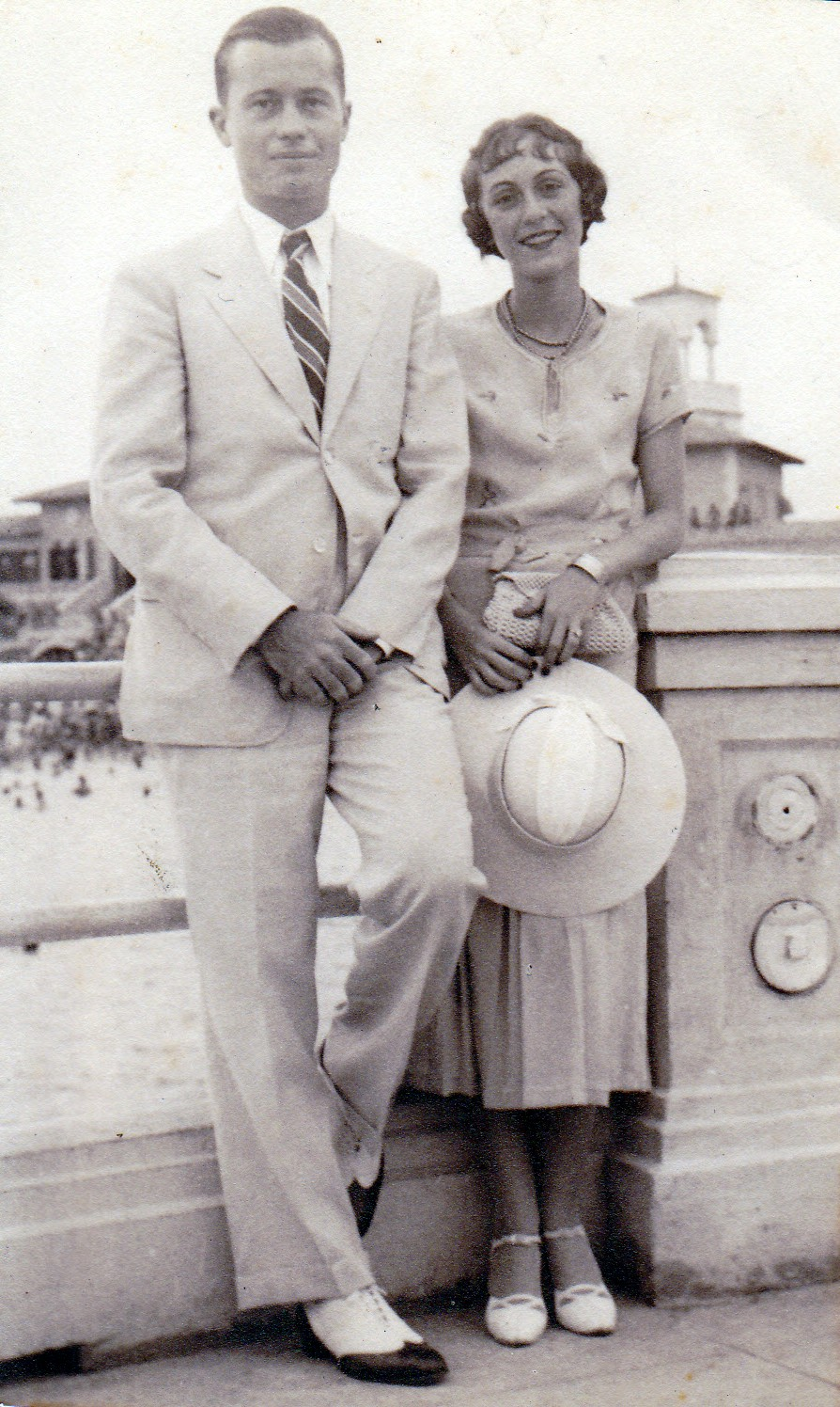 Recently married Herman Upmann and Cuqui Ponce de León